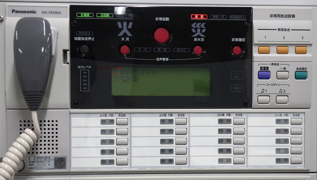 Control panel of Panasonic WK-ER500A Emergency Voice Evacuation System.